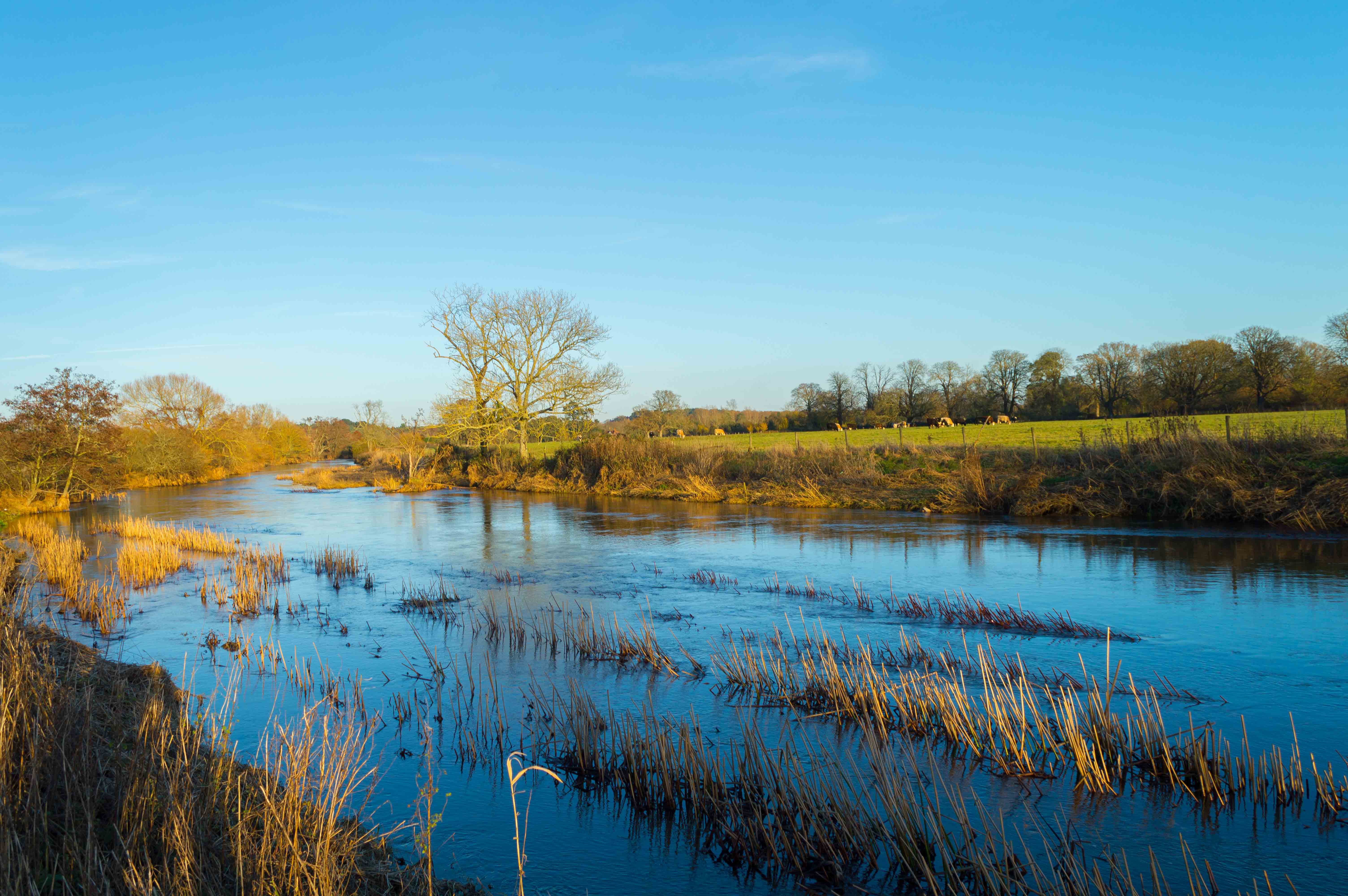 The River Stour at Little Canford, Dorset, just East of Canford School